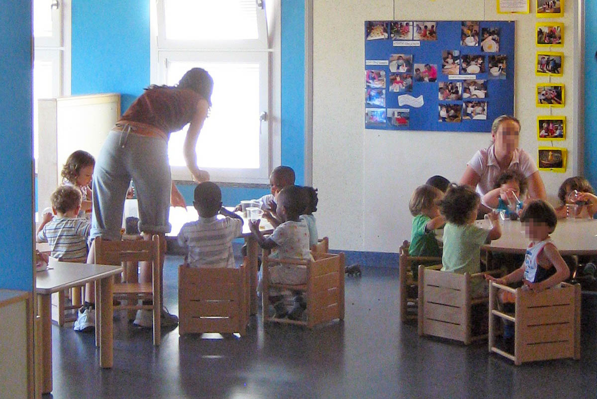 Teachers and children in a nursery school (Asilo-nido "Cucciolo" in Fontevivo)